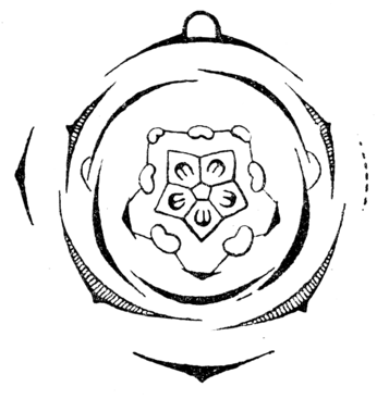 Diagram of a flower of Pelargonium zonale (Geraniaceae)